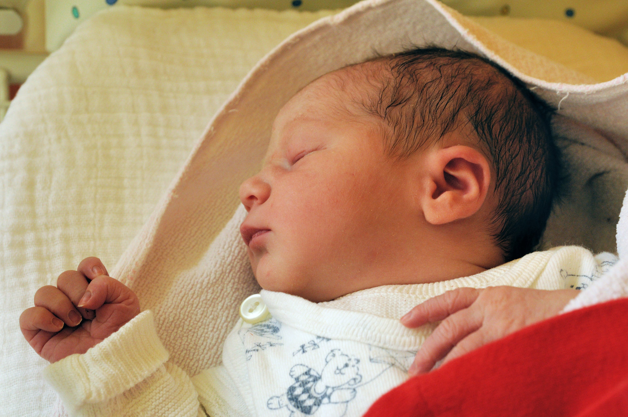 Newborn infant, 4 hours after birth